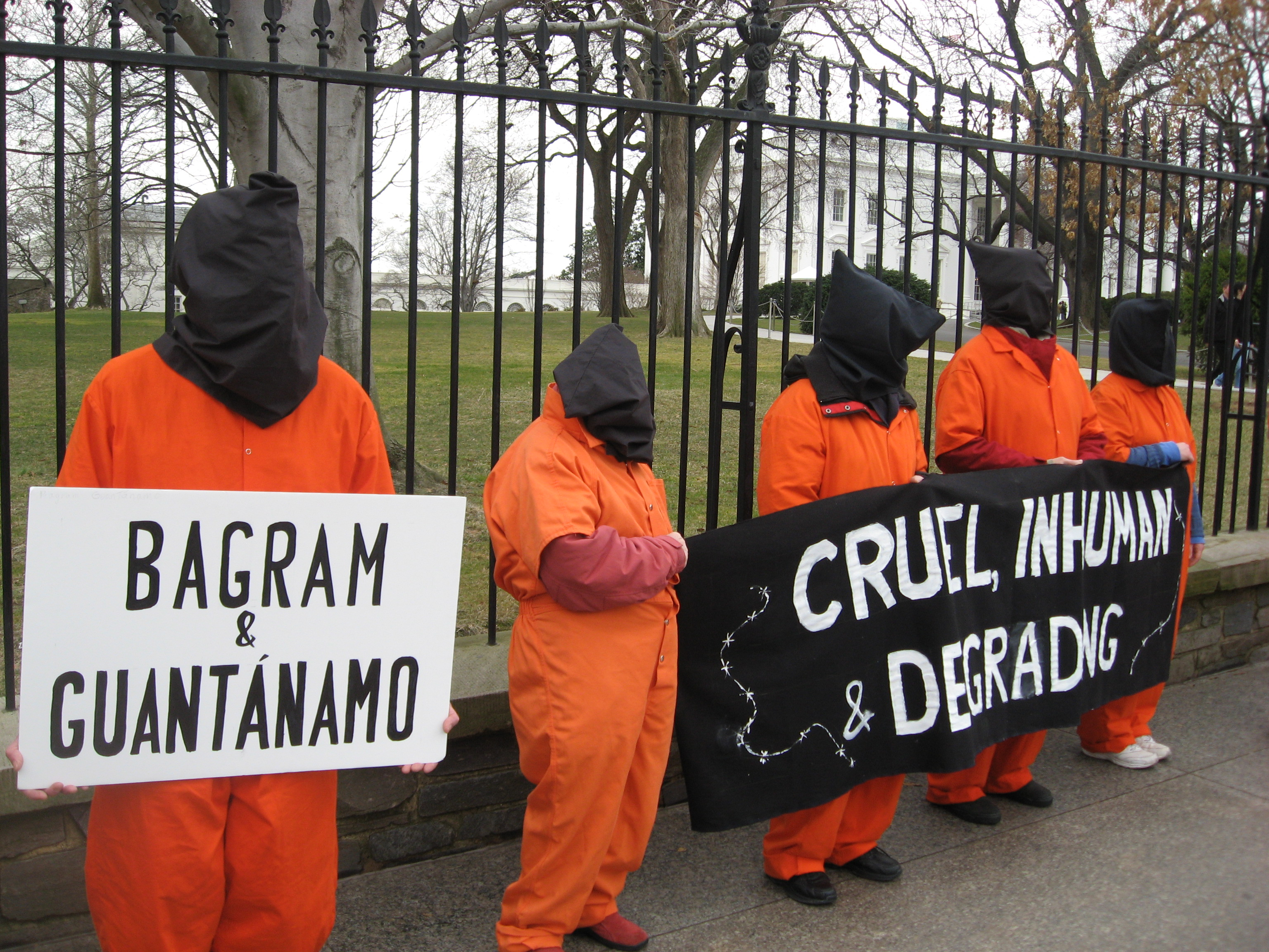 People hoping for change at the Guantanamo and Bagram detention facilities. The White House, Washington, DC.